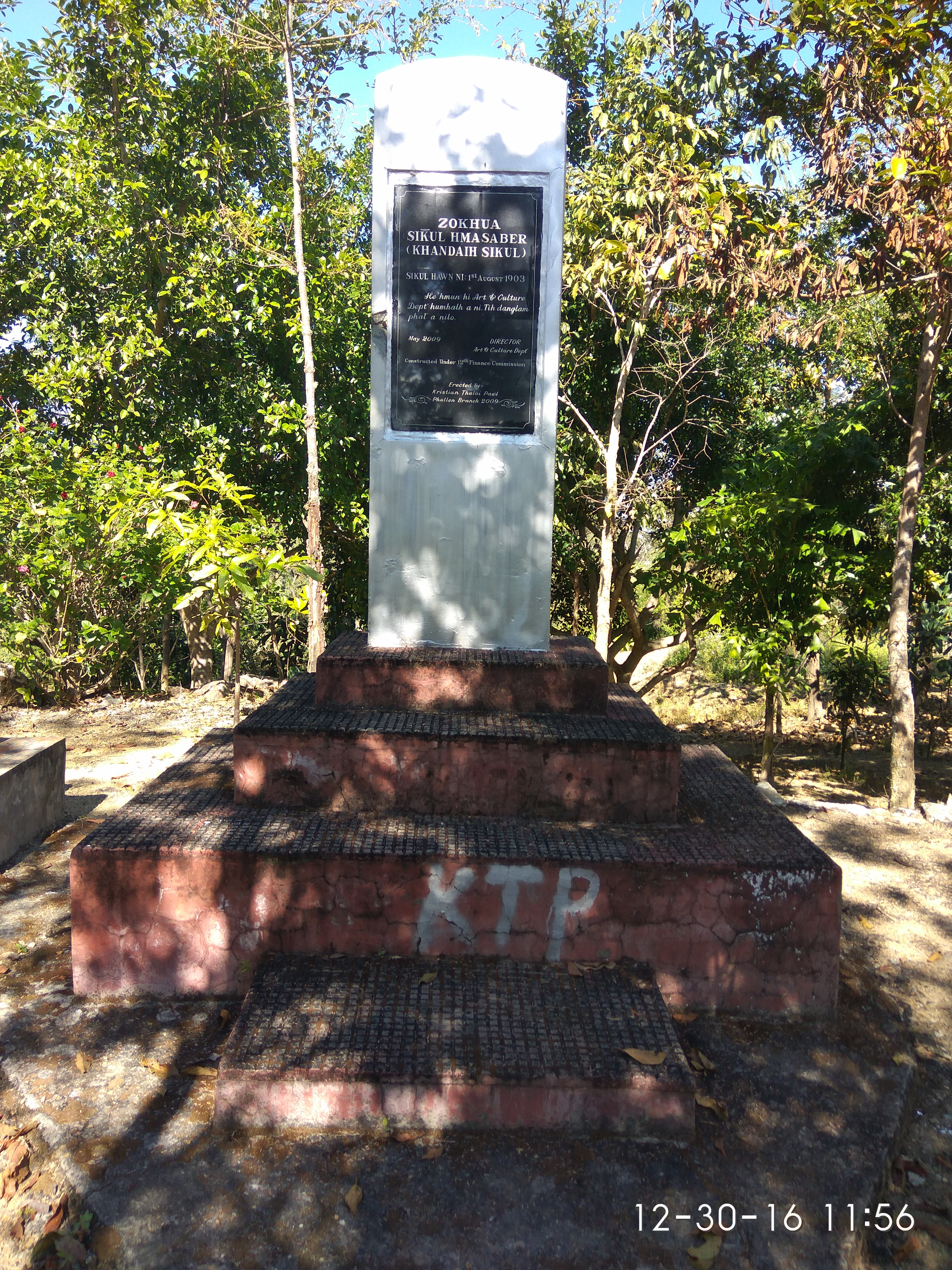 The first permanent school in Mizoram rural was established in 1st August, 1903 at Khandaih with the permission of Vanphunga Sailo, the chief of Khandaih. The numbers of student enrolled in Khandaih School is 116. The school was also used for preaching Gospel. Hrangsaipuia, son of Vawmhmelthaa was its first school teacher. This is also a place where the first Christian revival took place in Mizoram on 8 April 1906 which was called Khandaih Harhna